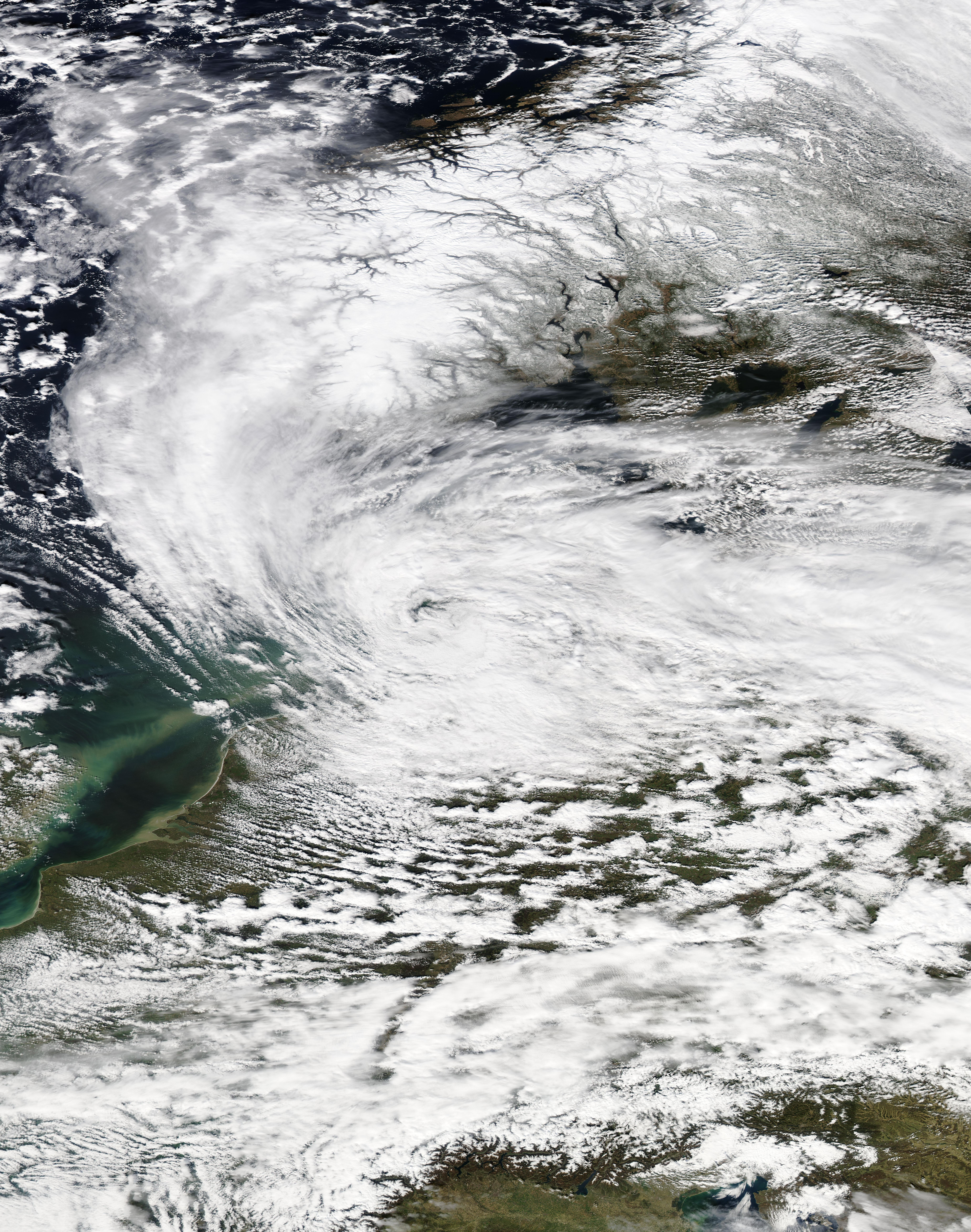 Storm Niklas Terra/MODIS 2015/090 03/31/2015 10:30 UTC